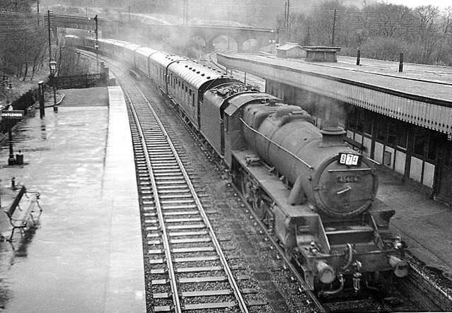 Dore & Totley Station, with train. View southward, towards Chesterfield, Derby etc. to left, Chinley and Manchester to right; ex-Midland main lines London - Leicester/Nottingham and Bristol - Birmingham - Derby via Chesterfield, and Manchester via Chinley. The train is a Down relief express from the Chesterfield direction, headed by Stanier Class 5 4-6-0 No. 45404.